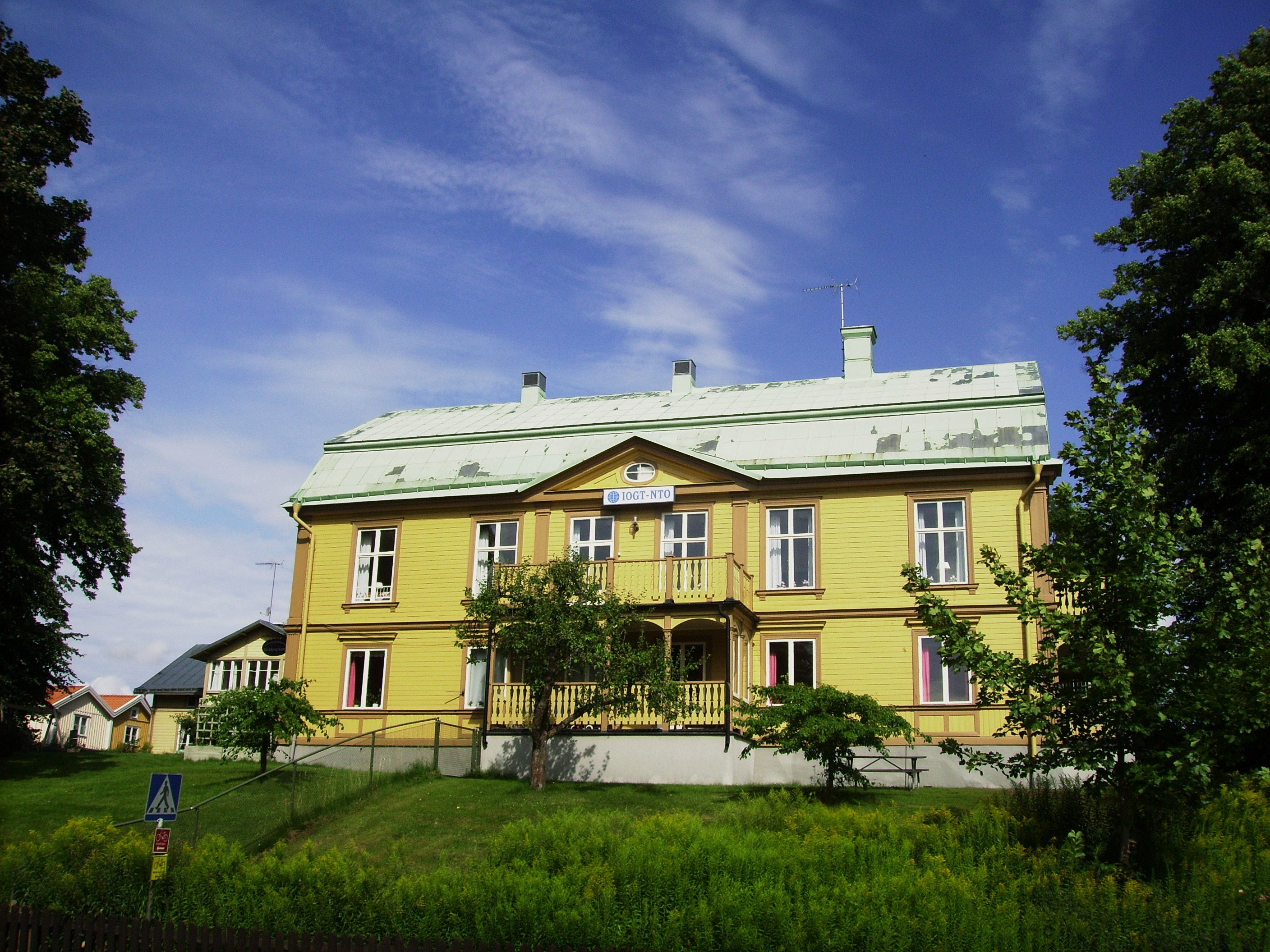 Picture of IOGT NTO building in Nyköping